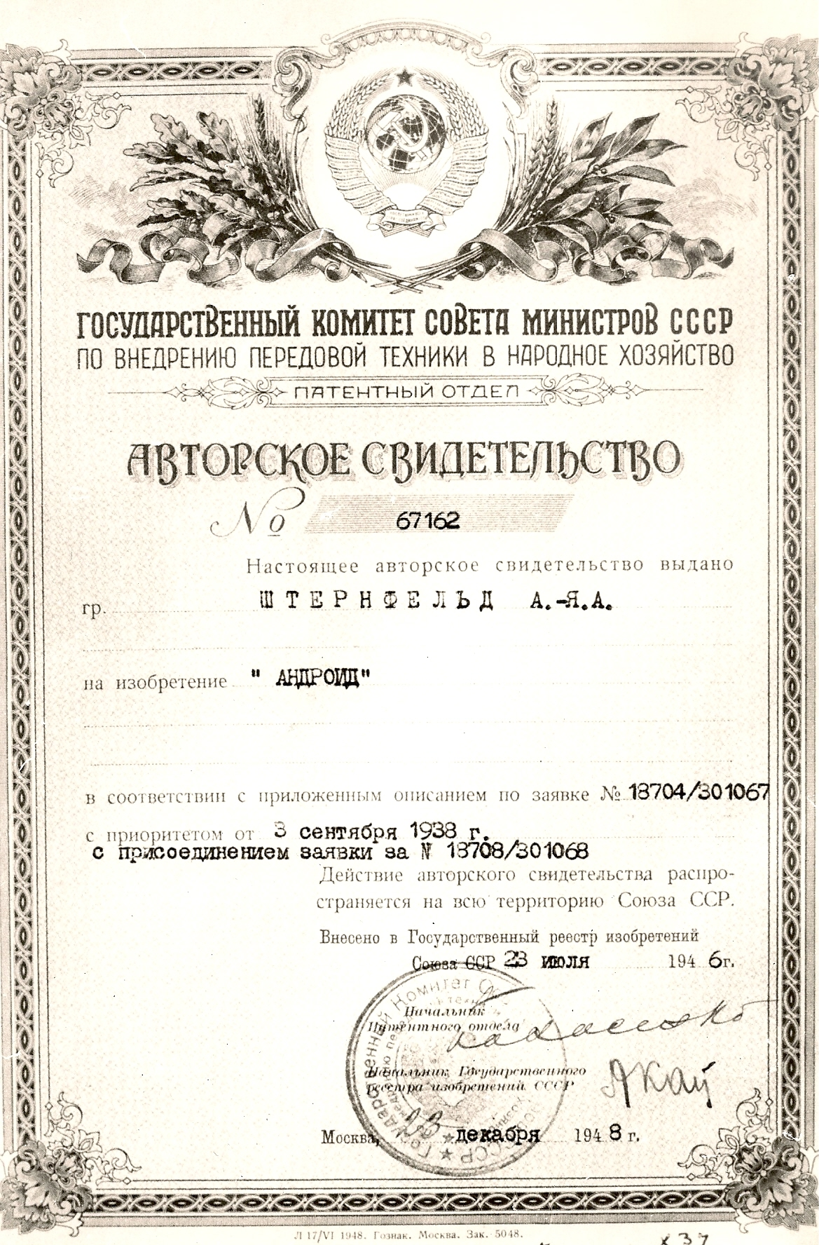 Inventor's certificate "Android", issued to Ari (Ary) Sternfeld in 1946 with a priority in 1938